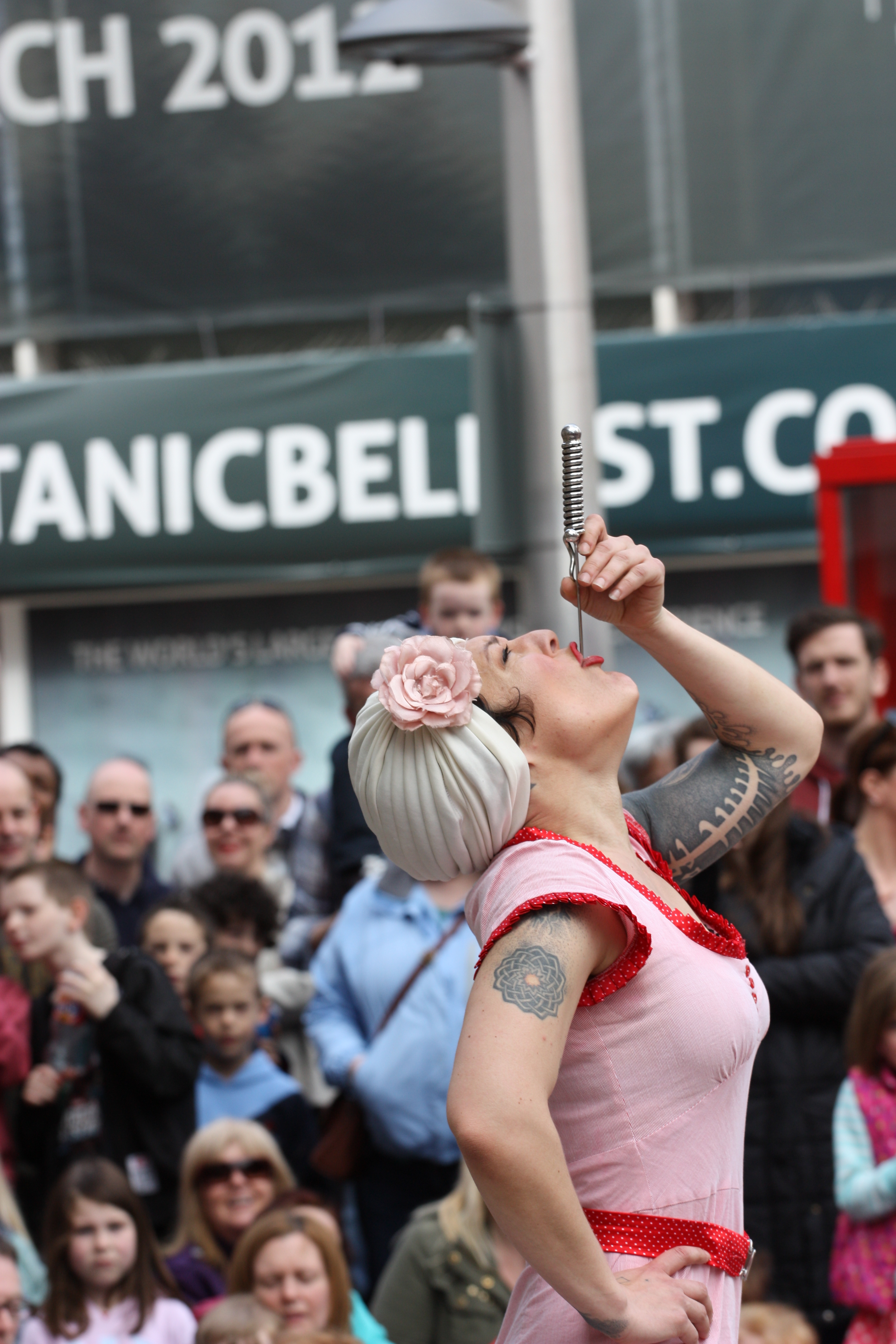 Miss Behave, Festival of Fools, Cornmarket, Belfast, May 2013